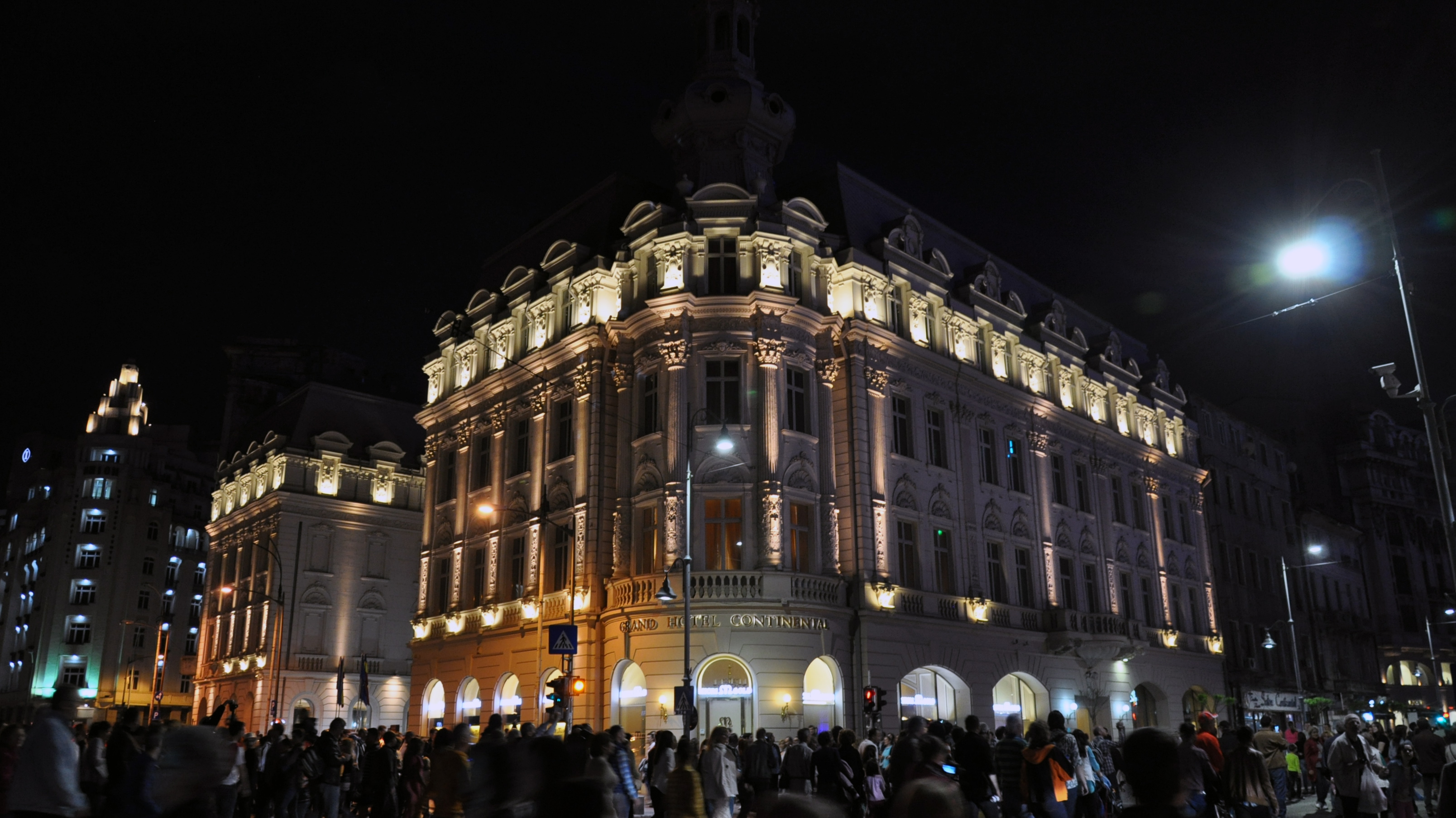 Grand Hotel ContinentalRomână: Hotel Continental